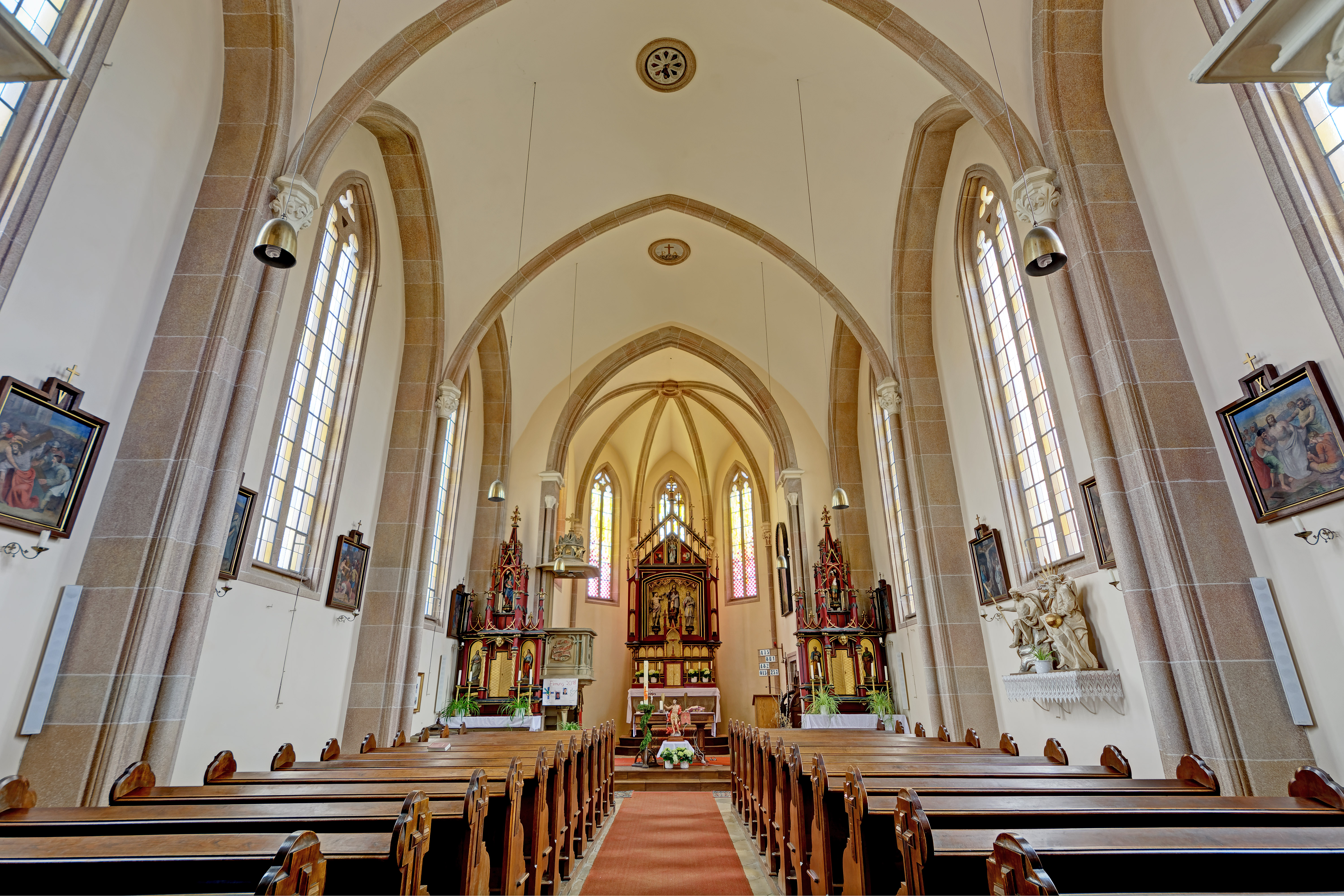 Indoor of the catholic parish church at Siebenhirten, Municipality Mistelbach, Lower Austria, Austria